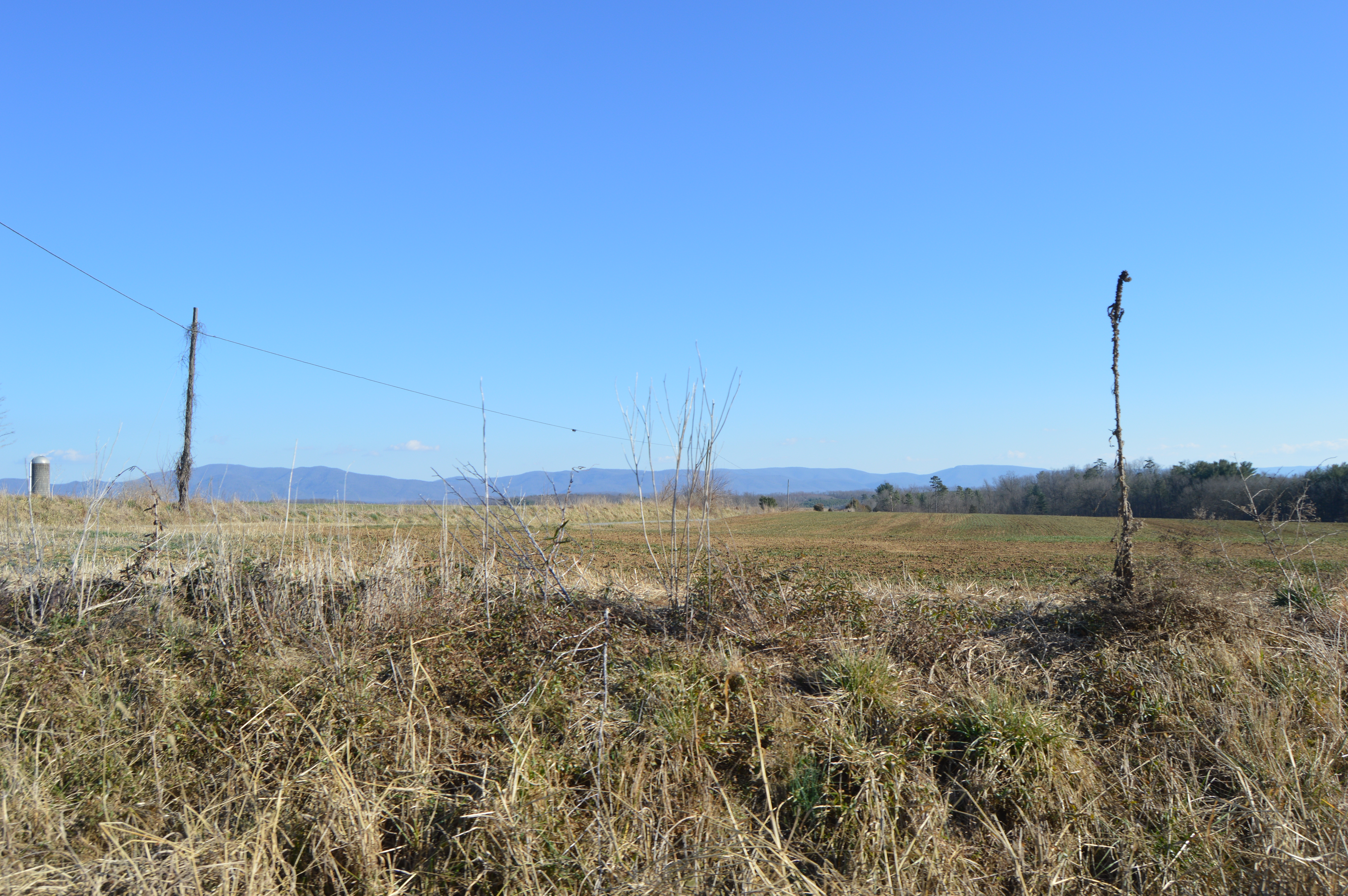 Open fields on the southern corner of the intersection of Airport, Broad Run, and Westview School Roads, south of Weyers Cave, in Augusta County, Virginia, United States. This was formerly the site of the West View Schoolhouse; listed on the National Register of Historic Places in 1985, it officially remains on the Register, despite its destruction.